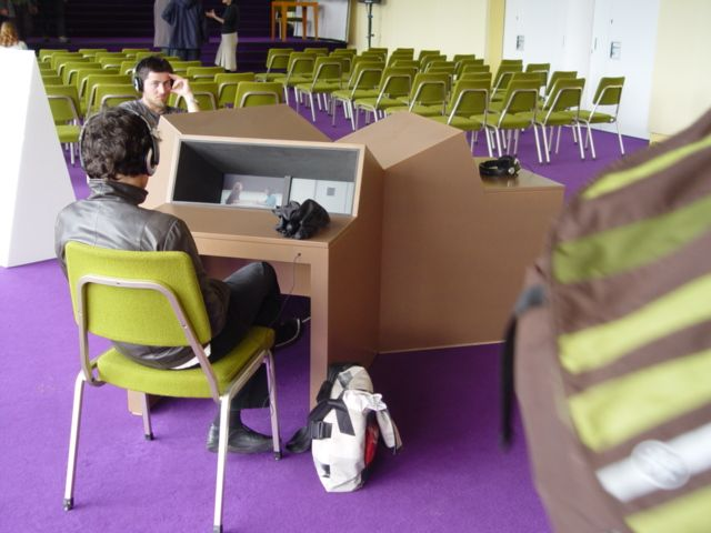 documenta 12